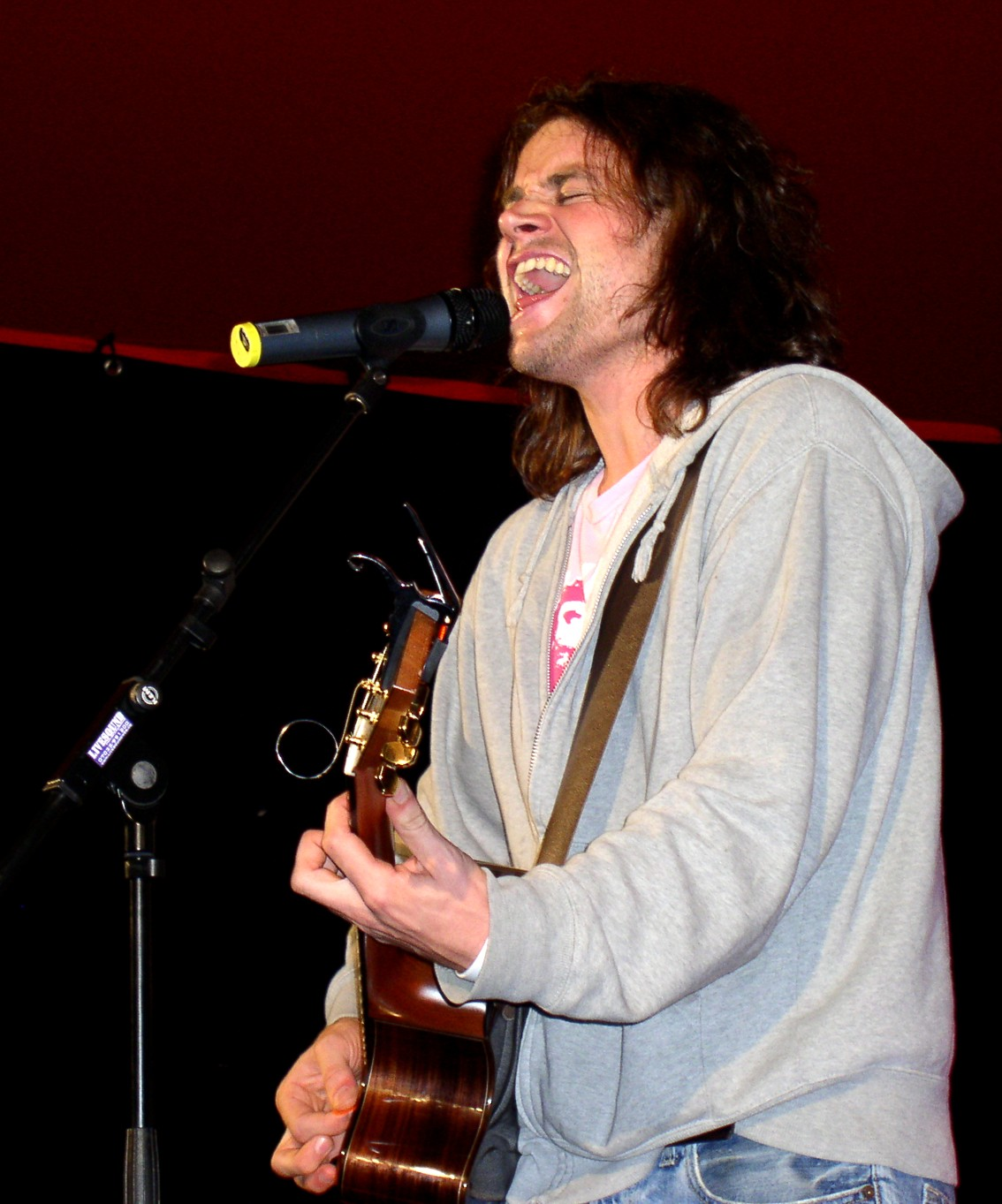 Claas P. Jambor live in concert, Jugenddiakoniefestival, Wilhelmsdorf 07.09.2005